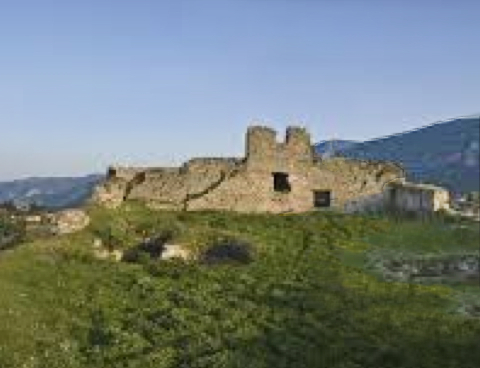 View of Bodonitza castle (Central Greece, municipality of Molos-Agios Konstantinos)